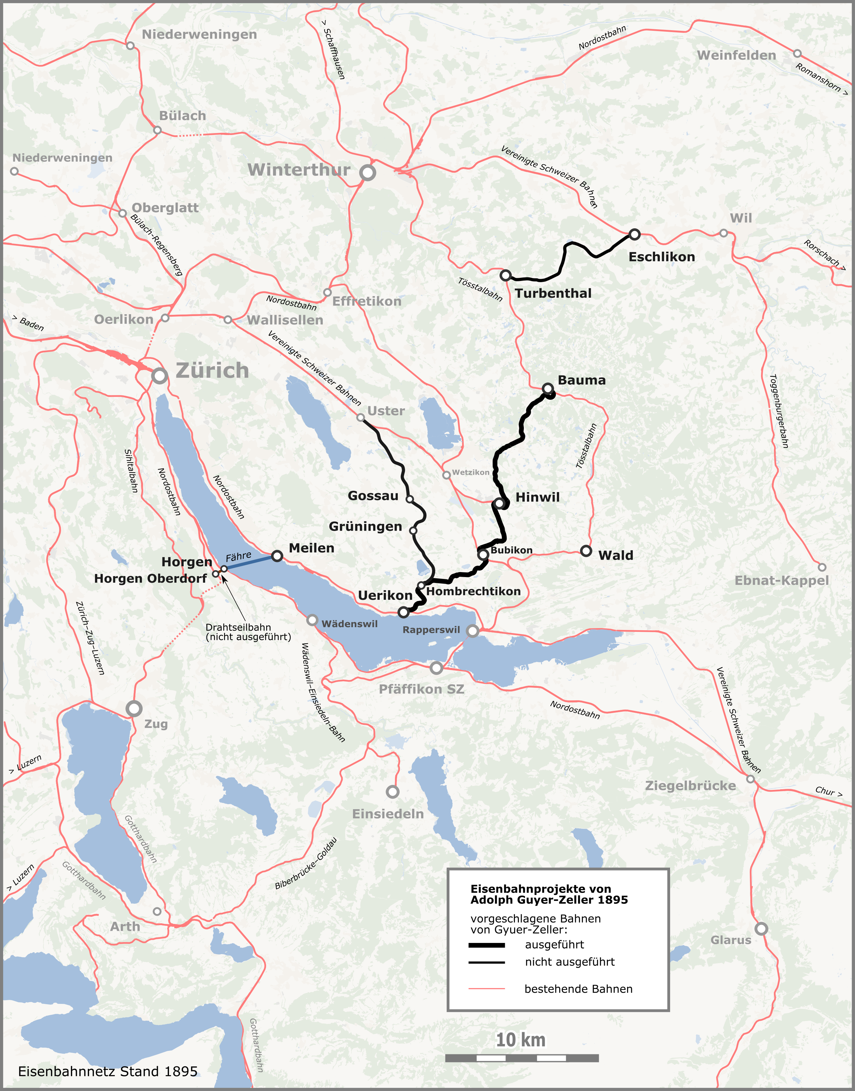 Project Adolf Guyer-Zeller's railway projects in 1895